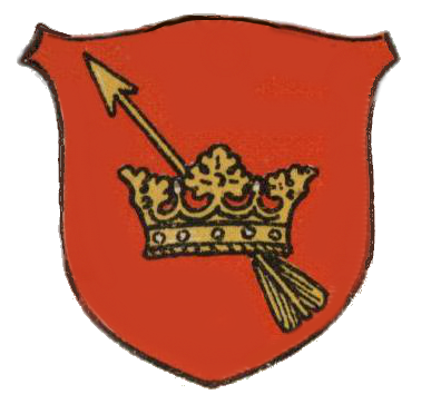 Zeppenfeldts cout of arms